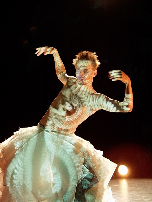 A production image of the multimedia artwork by Marita Liulia in HUNT by Liulia and Tero Saarinen.